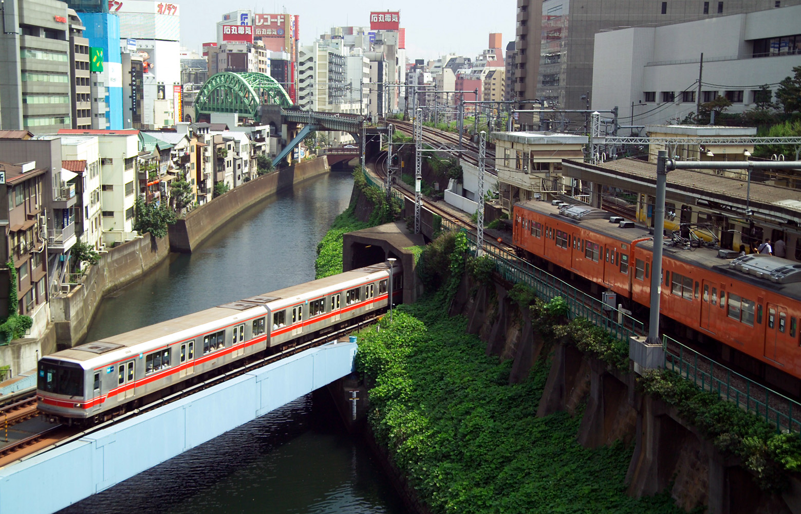 Tokyo's subway system (tunnel) and commuter-rail network cross near the Kanda River. Emerging from the tunnel is a train on the Tokyo Metro Marunouchi Line. Waiting at the station is a train on the East Japan Railway Company Chūō Main Line. Photographed from the Hijiri Bridge over the Kanda River adjacent to Ochanomizu Station looking toward Akihabara.